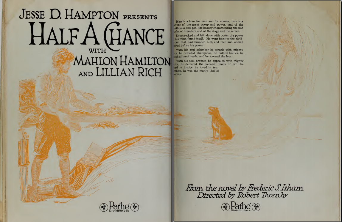 Half a Chance directed by Robert Thornby 1920